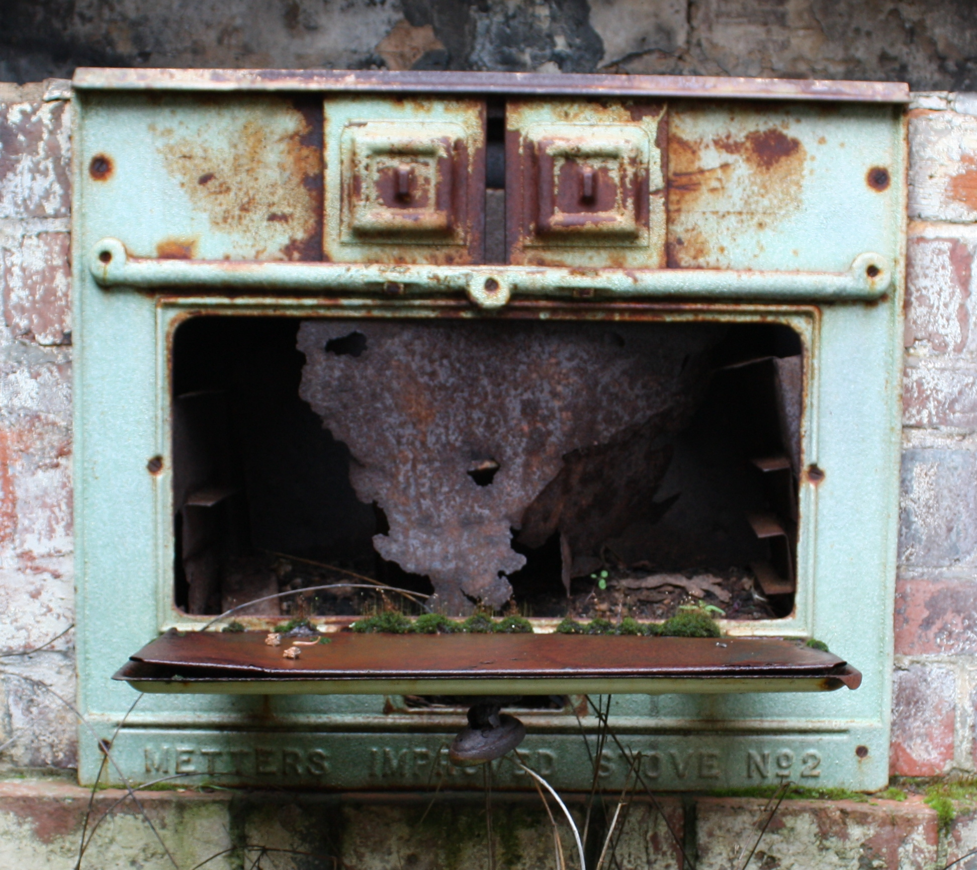 A rusty old Metters Improved Stove No 2, found in a ruin at Hester, Western Australia.